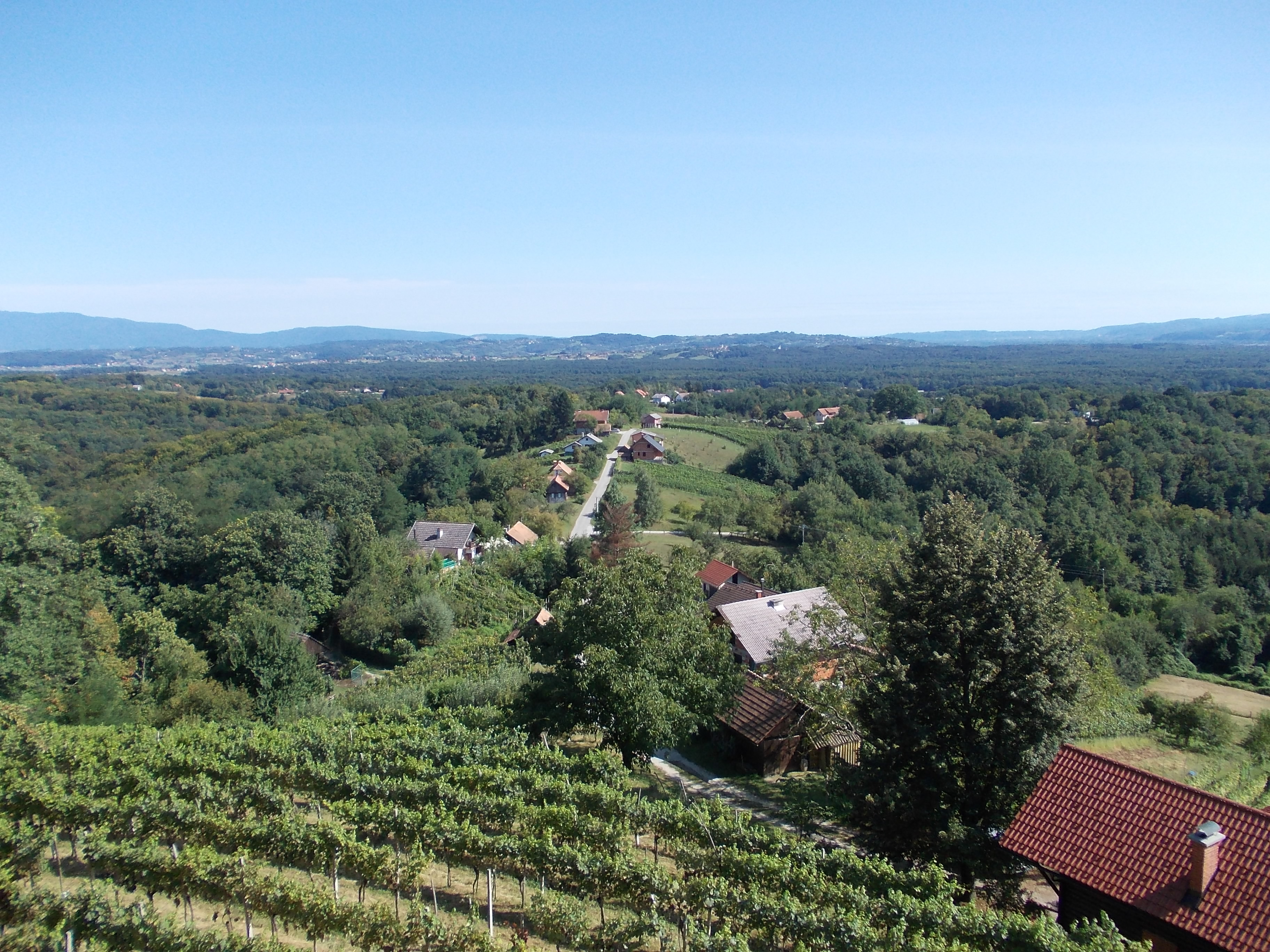 St. Barbara's Church (Blatno)